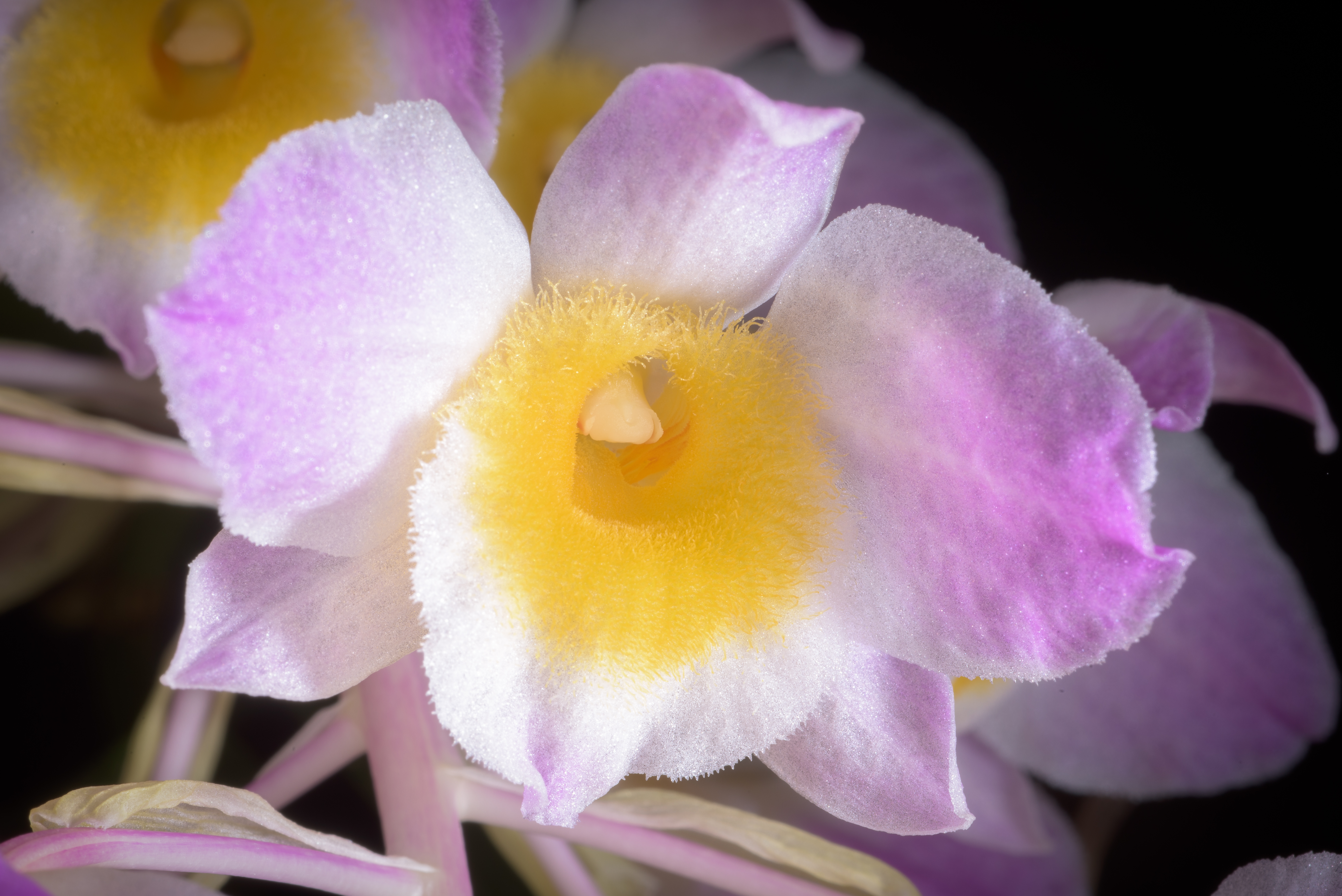 SECTION Densiflora Distribution: Vietnam 41 VIE Found in Asia-Tropical Indo-China Vietnam